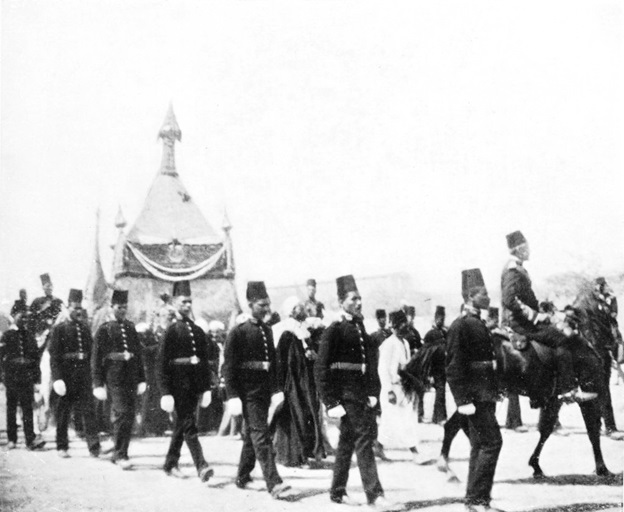 A palanquin which carried the Holy Carpet. Black-and-white photograph.